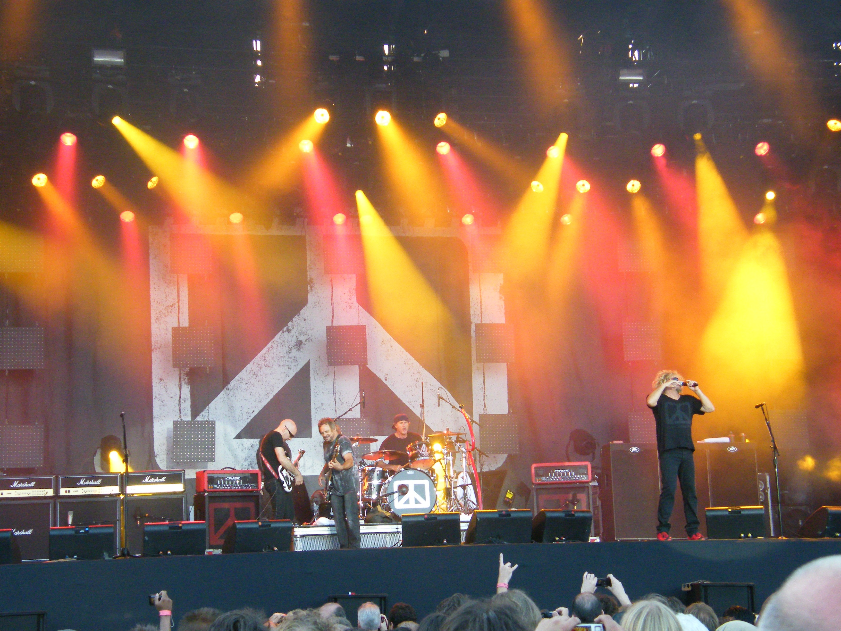 Chickenfoot in concert at the Bospop2009 festival in Weert the Netherlands.